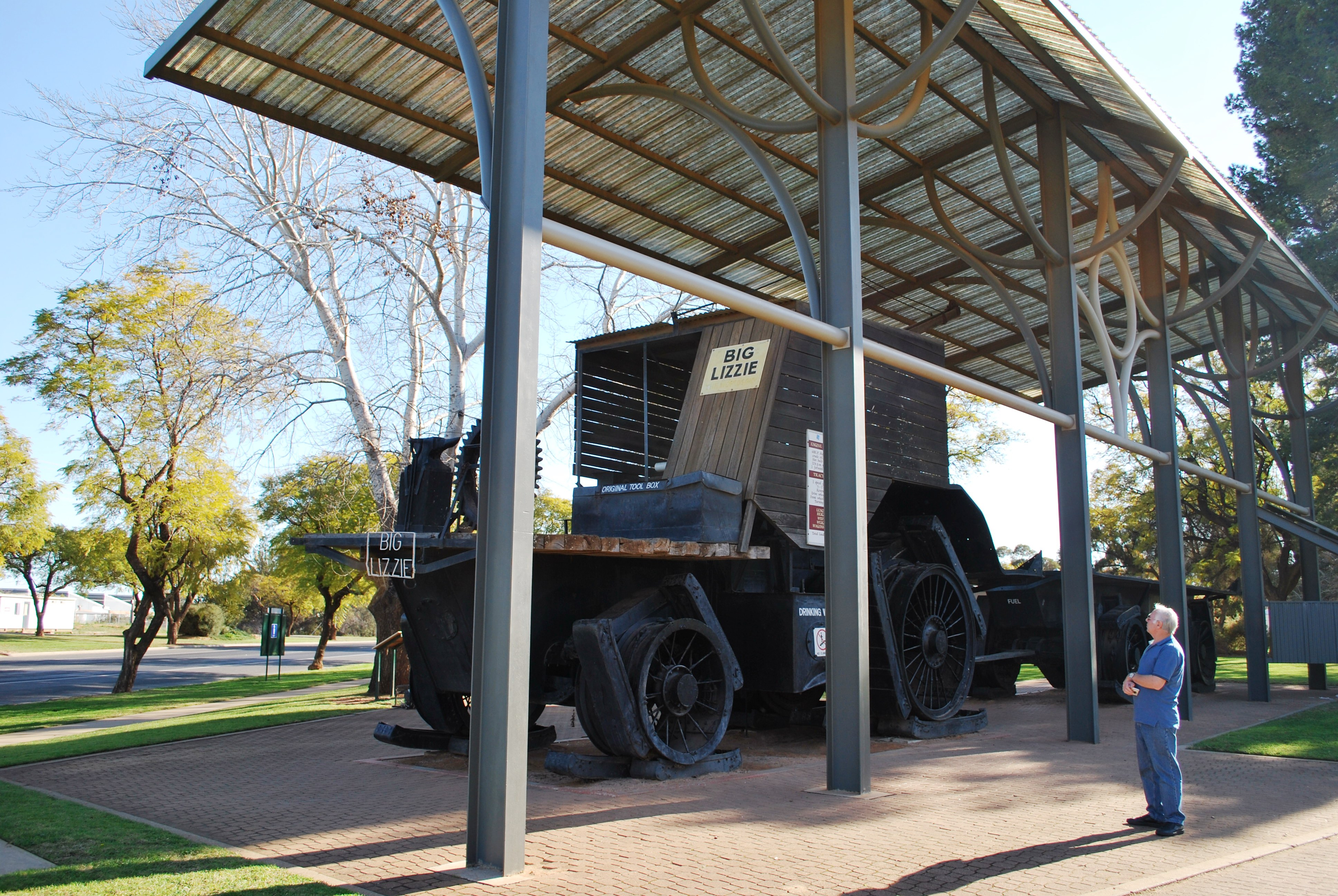 "Big Lizzie", a large tractor/truck, at Red Cliffs, Victoria